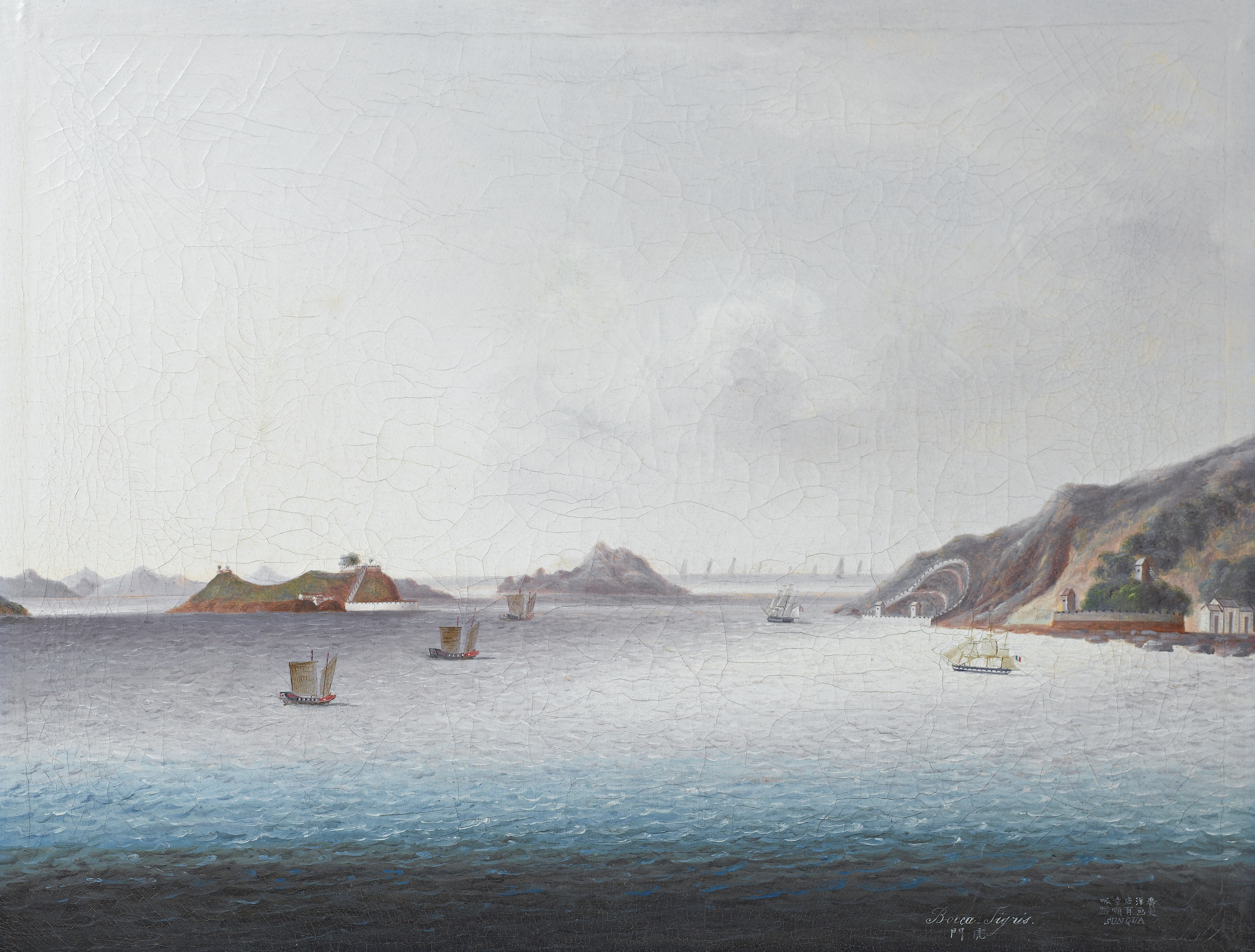 Oil on canvas of the Bocca Tigris.